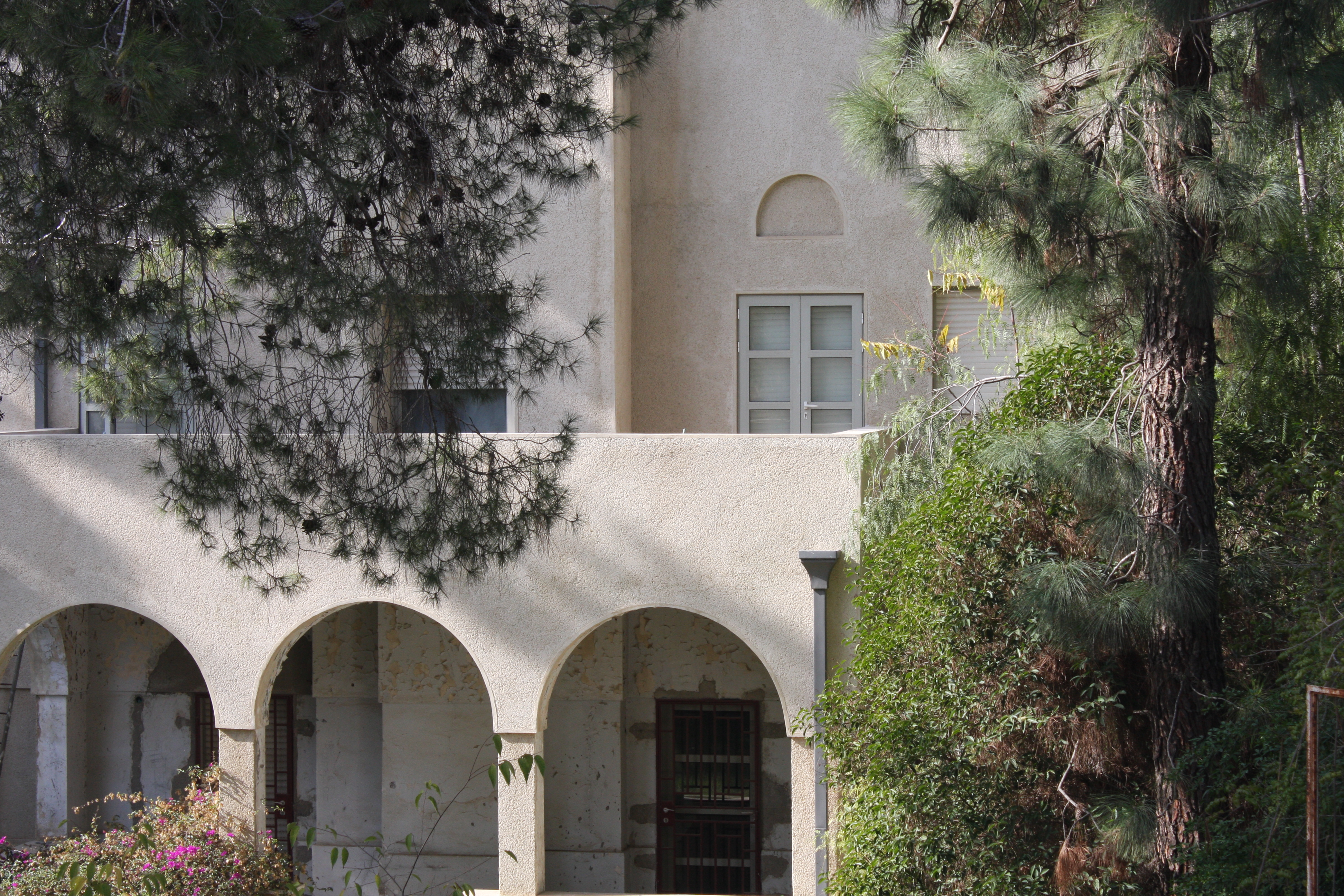 Julius Jacobs house, offical residence of the Prime Minister of Israel until 1974